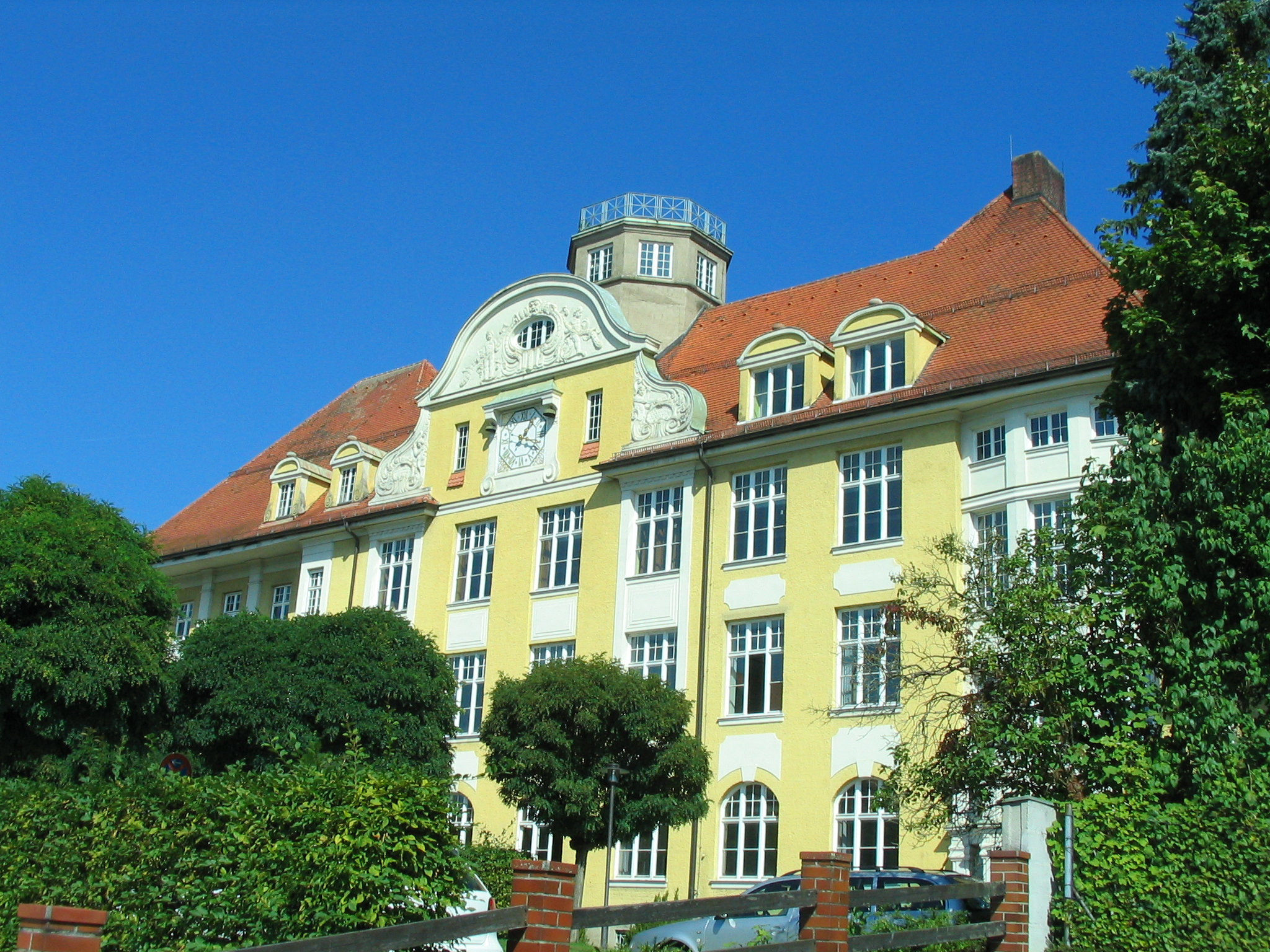 Secondary school Comenius, Deggendorf, GermanyThis is a photograph of an architectural monument.